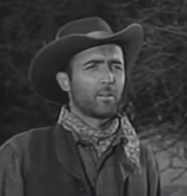 John Alvin in the TV series The Lone Ranger, épisode The Masked Rider (cropped screenshot)